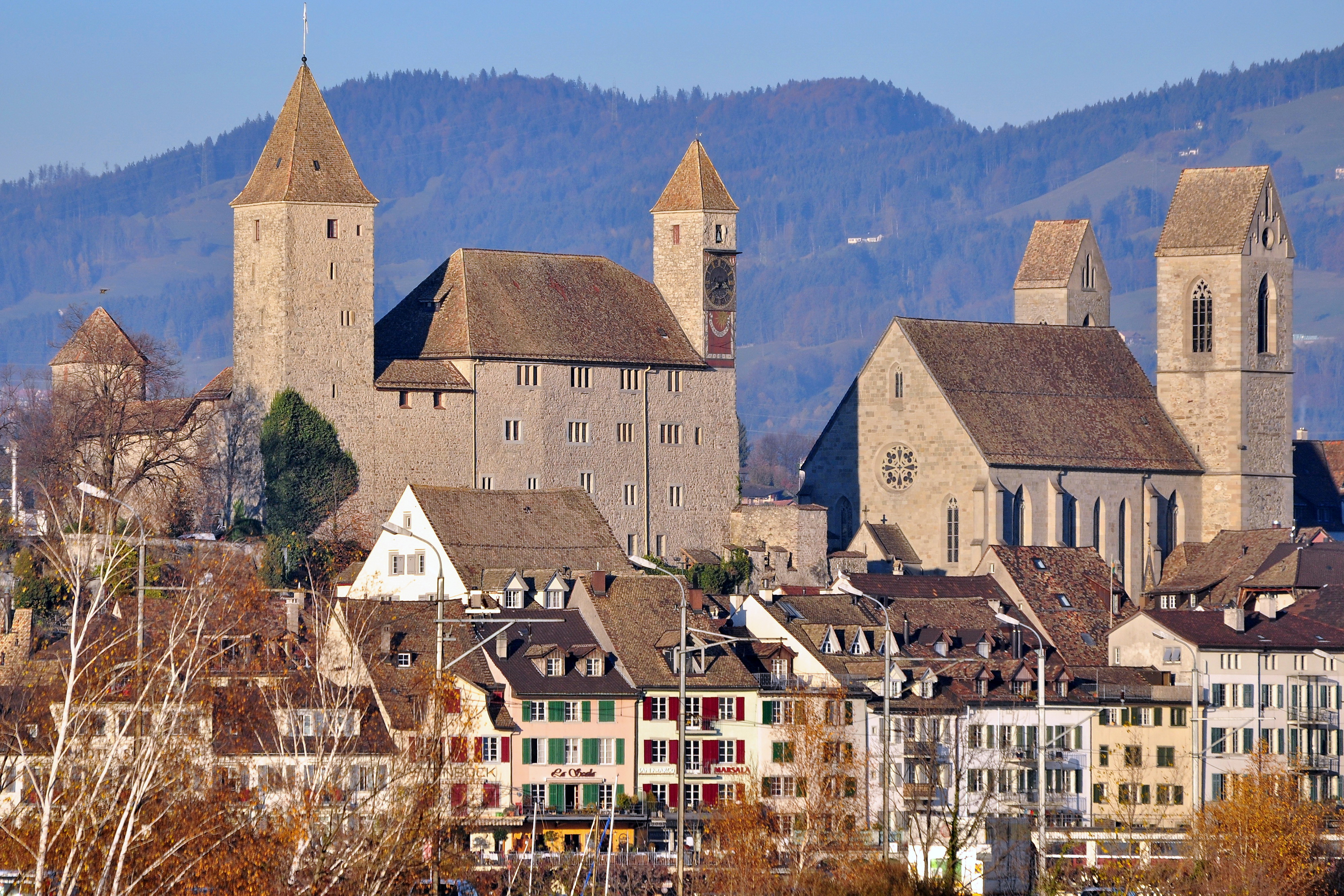 Rapperswil (Switzerland) : Rapperswil castle, Altstadt and St. John's Church, as seen from Holzbrücke crossing Obersee (upper Lake Zurich) between Rapperswil and Hurden, the so-called Seedamm area in the foreground to the left.